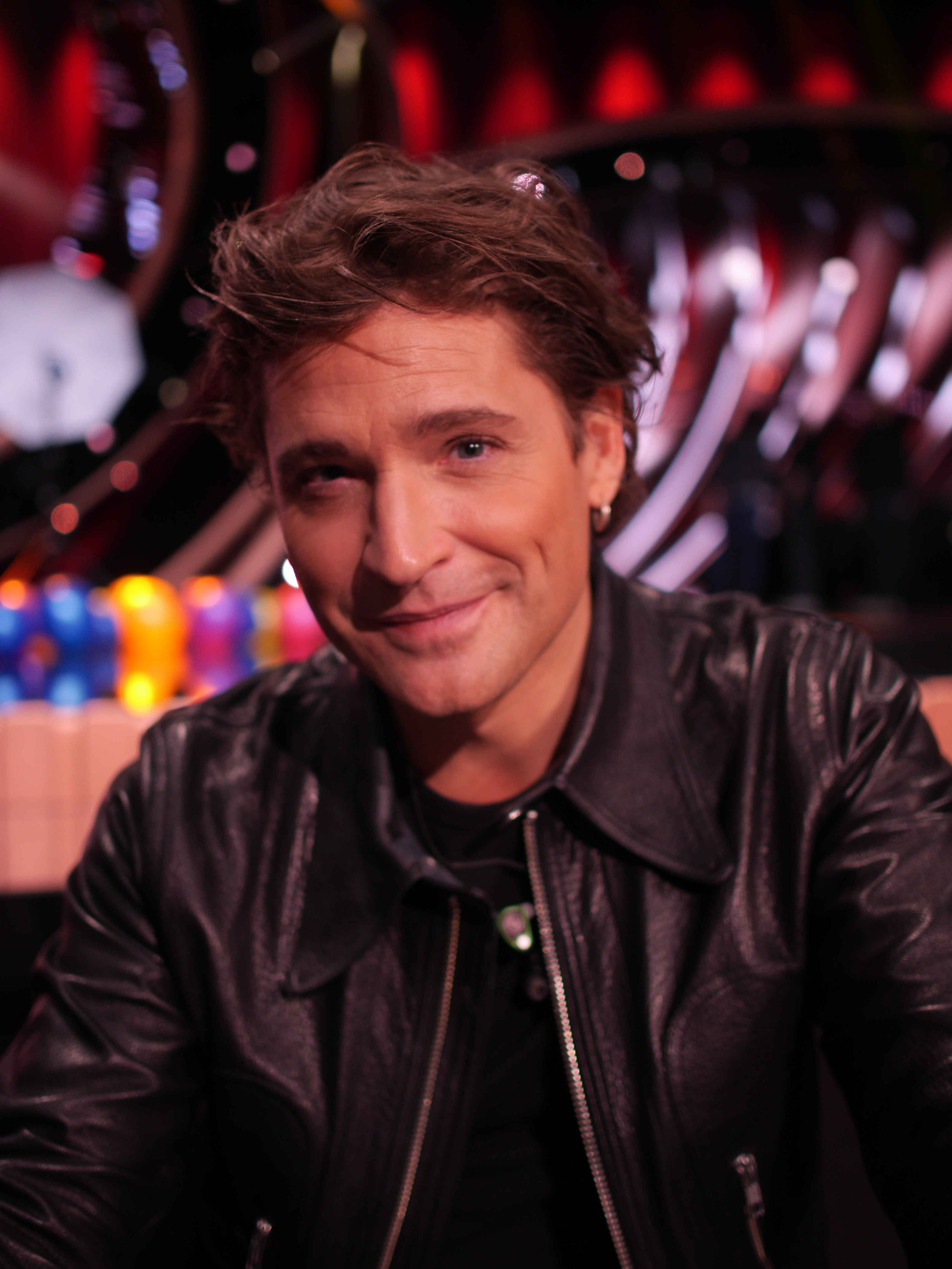 Melodifestivalen 2019, part contest 2, Malmö, Sweden